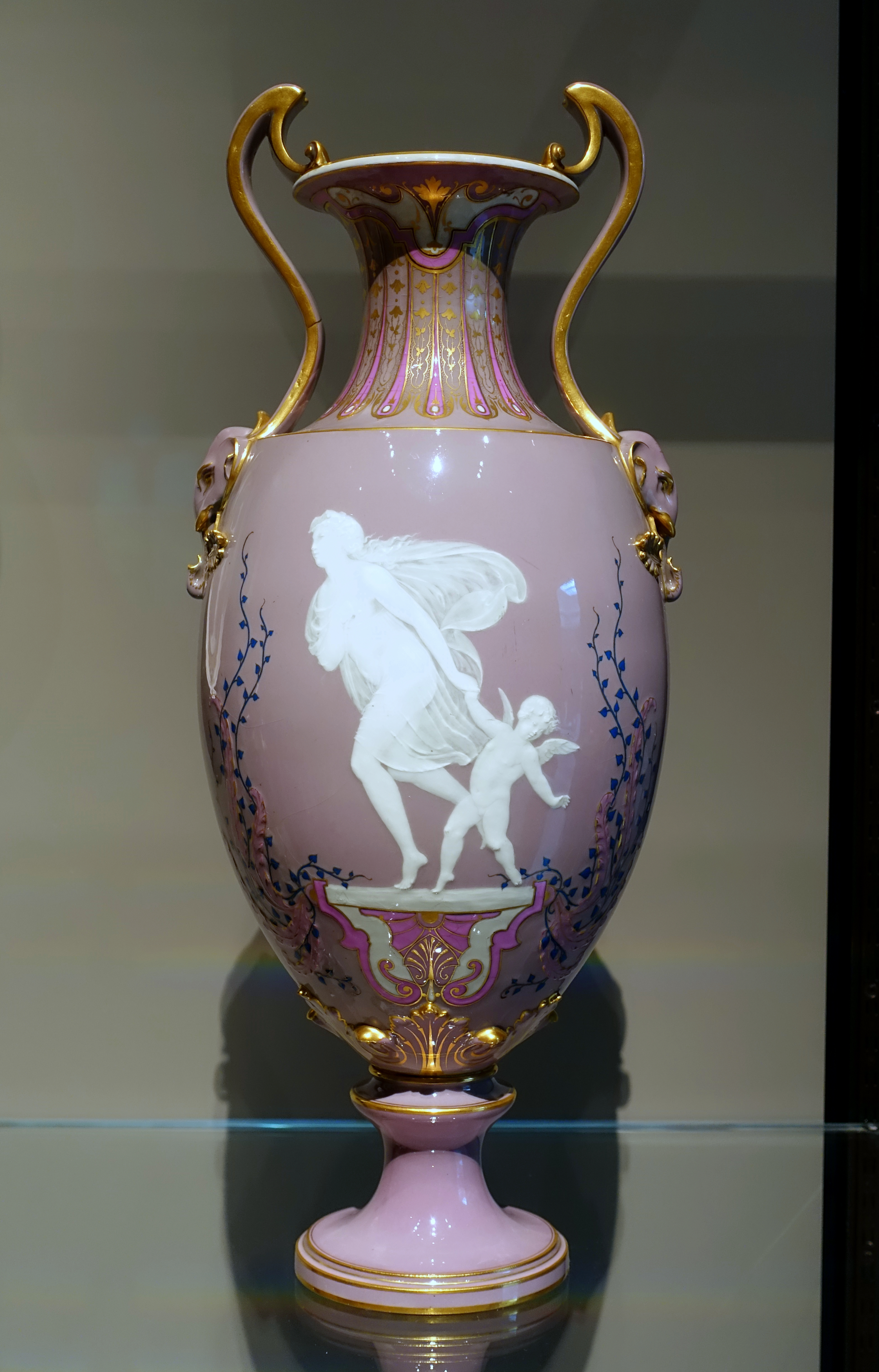 Exhibit in the Wadsworth Atheneum - Hartford, Connecticut, USA. This work is old enough so that it is in the public domain.